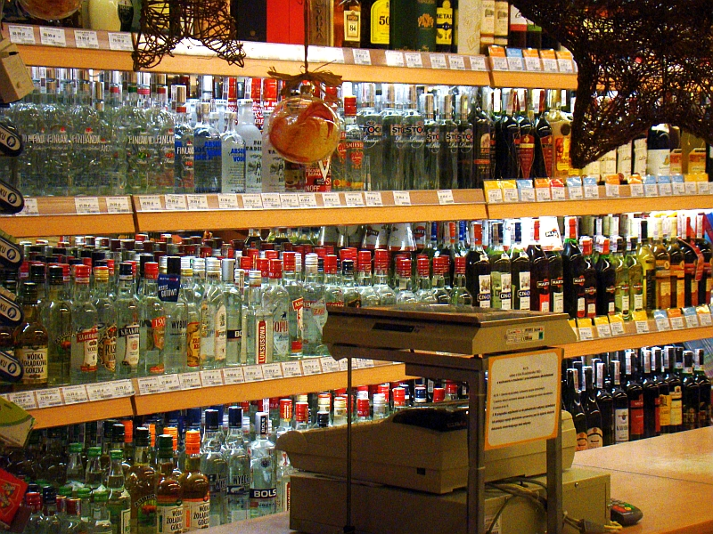 market FRAC in Sanok